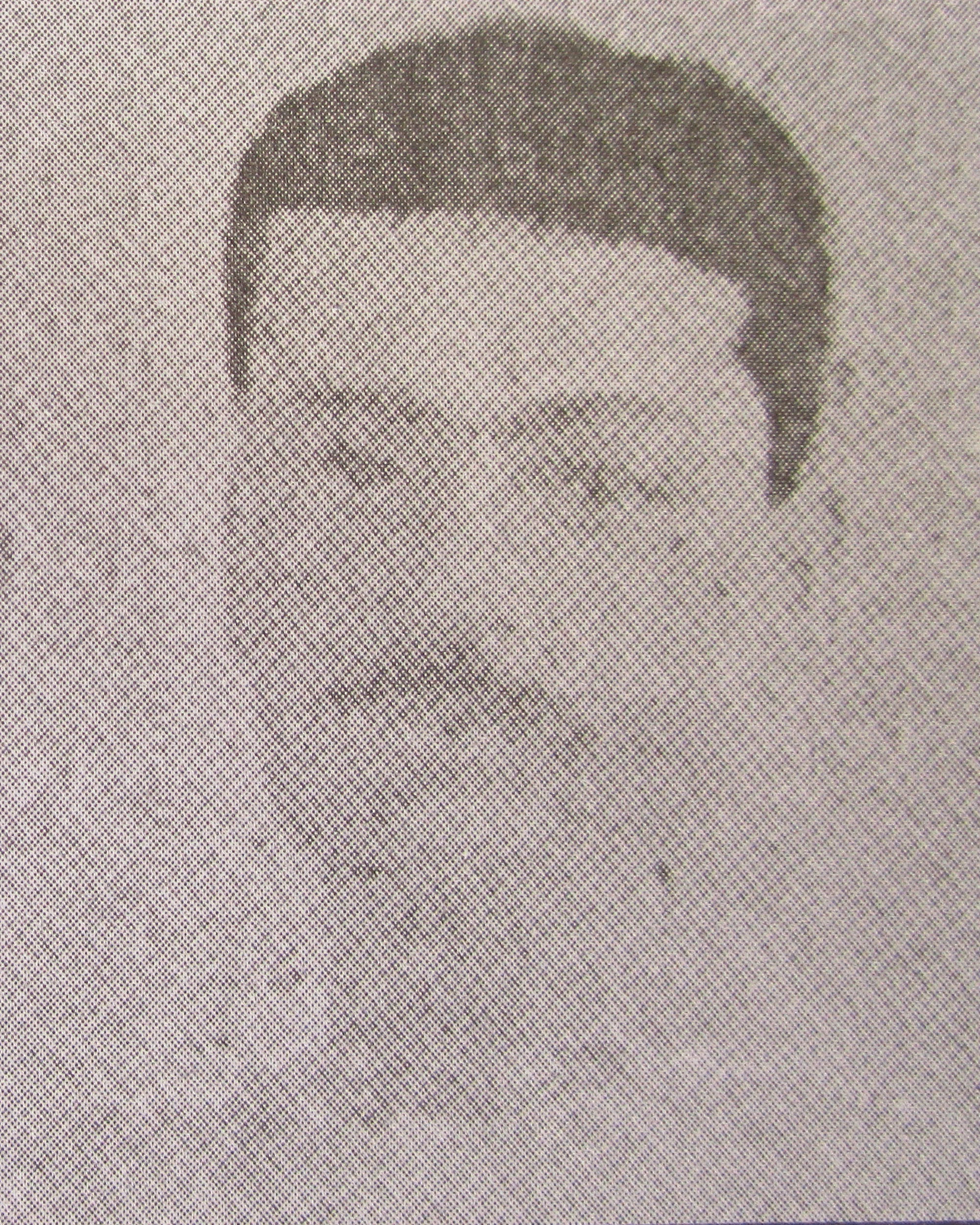 Sachindra Nath Sanyal